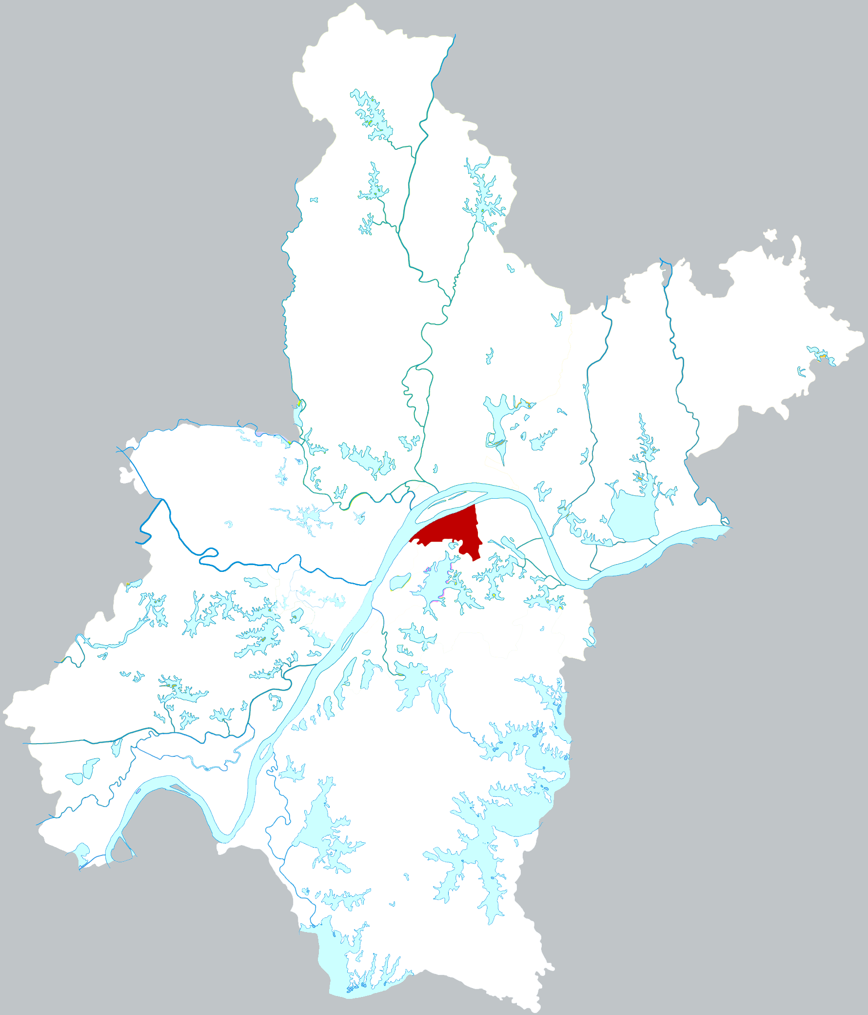 Location of Qingshan district in Wuhan city, China